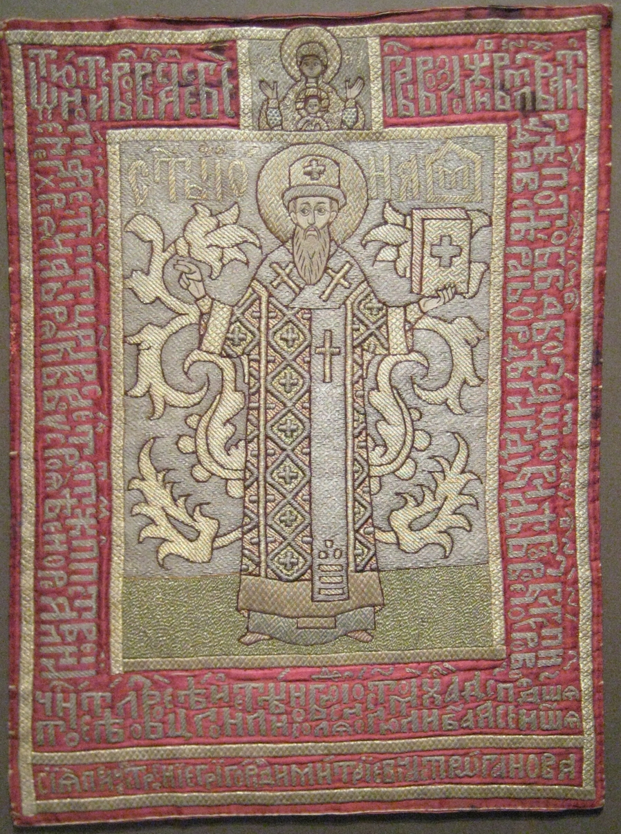 Saint Jonah of Moscow. Embroidered cloth (Patriarchal residence, Moscow Kremlin).